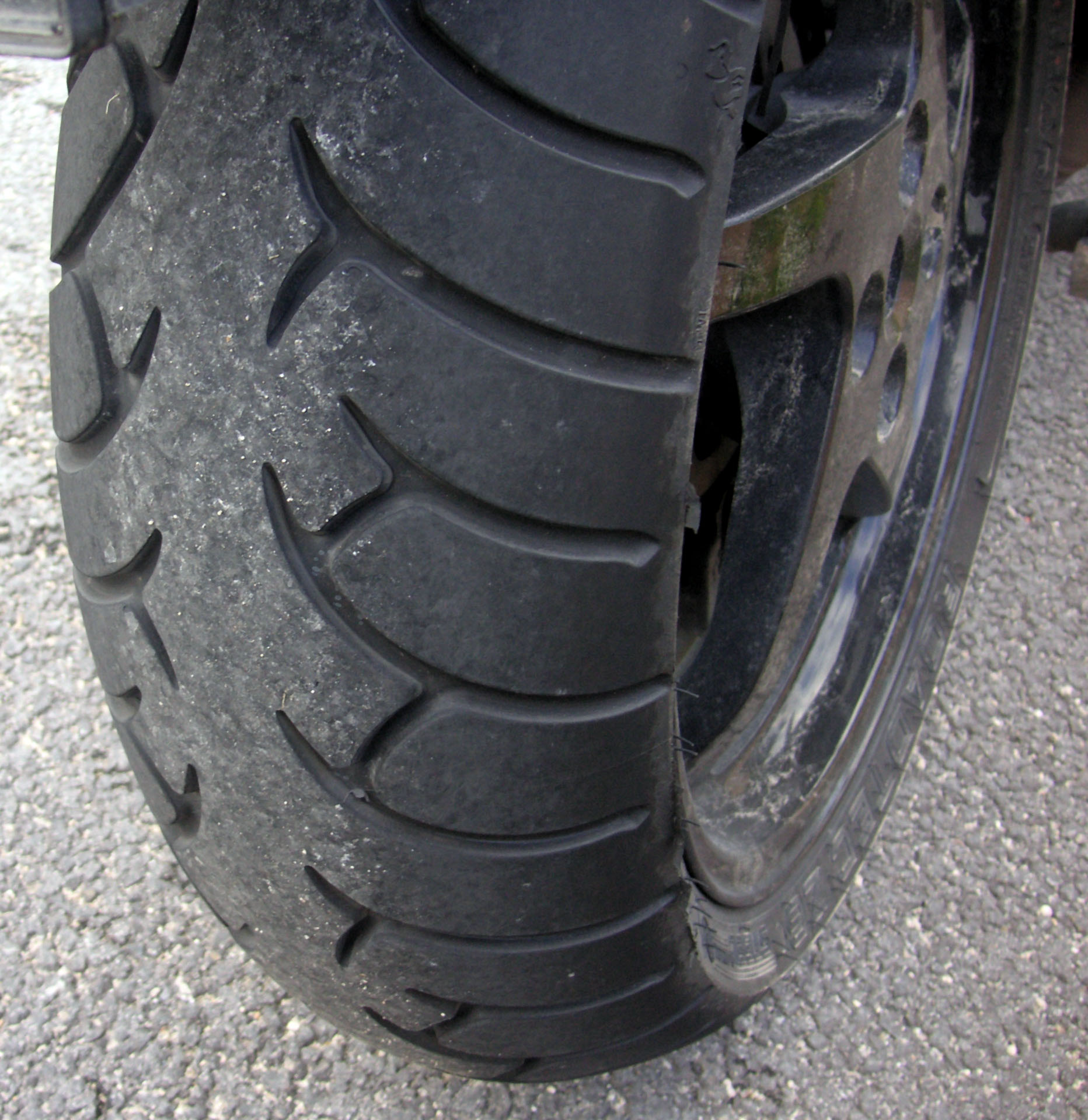 rear tire of a motorbike